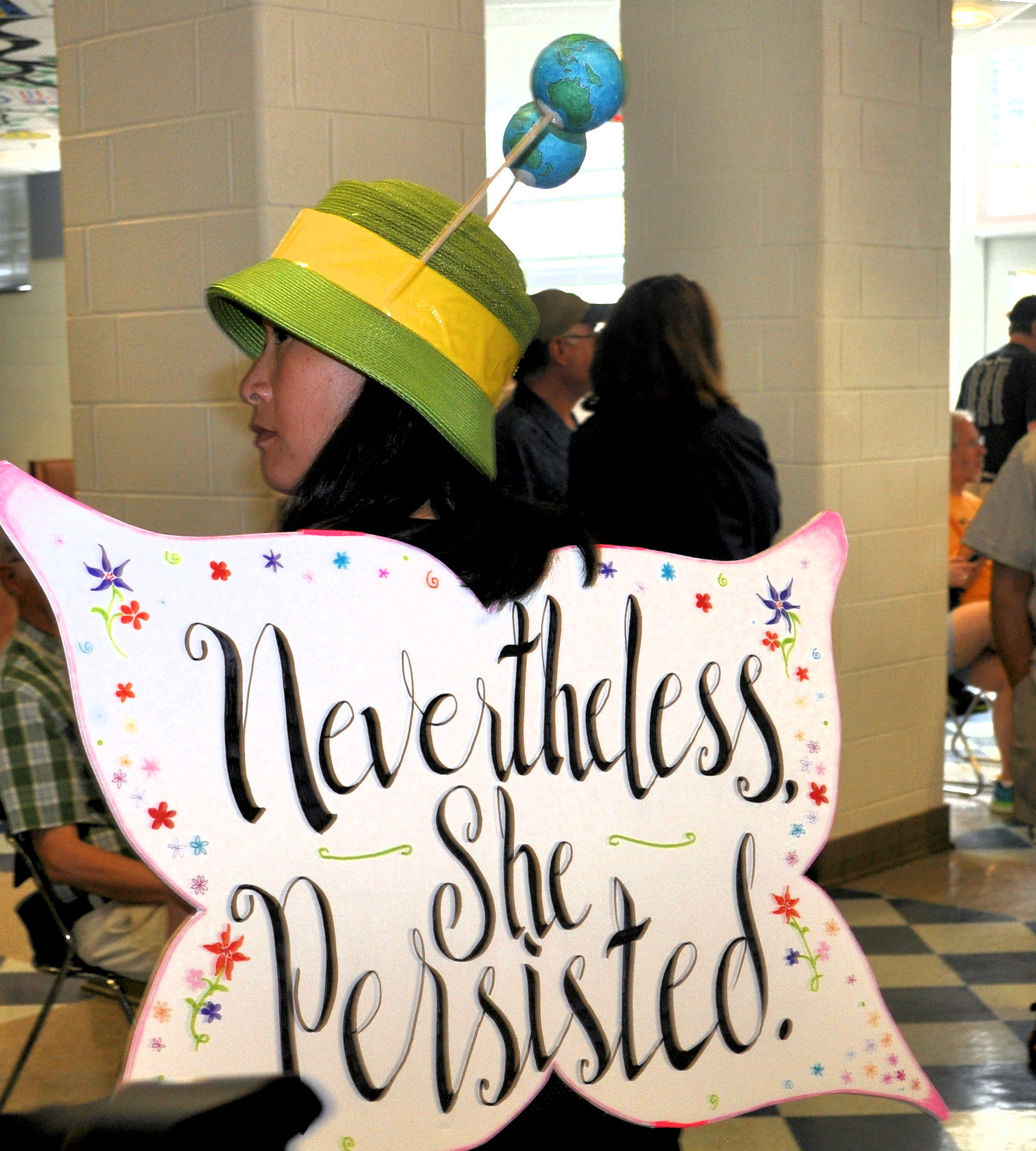 Climate March 1908